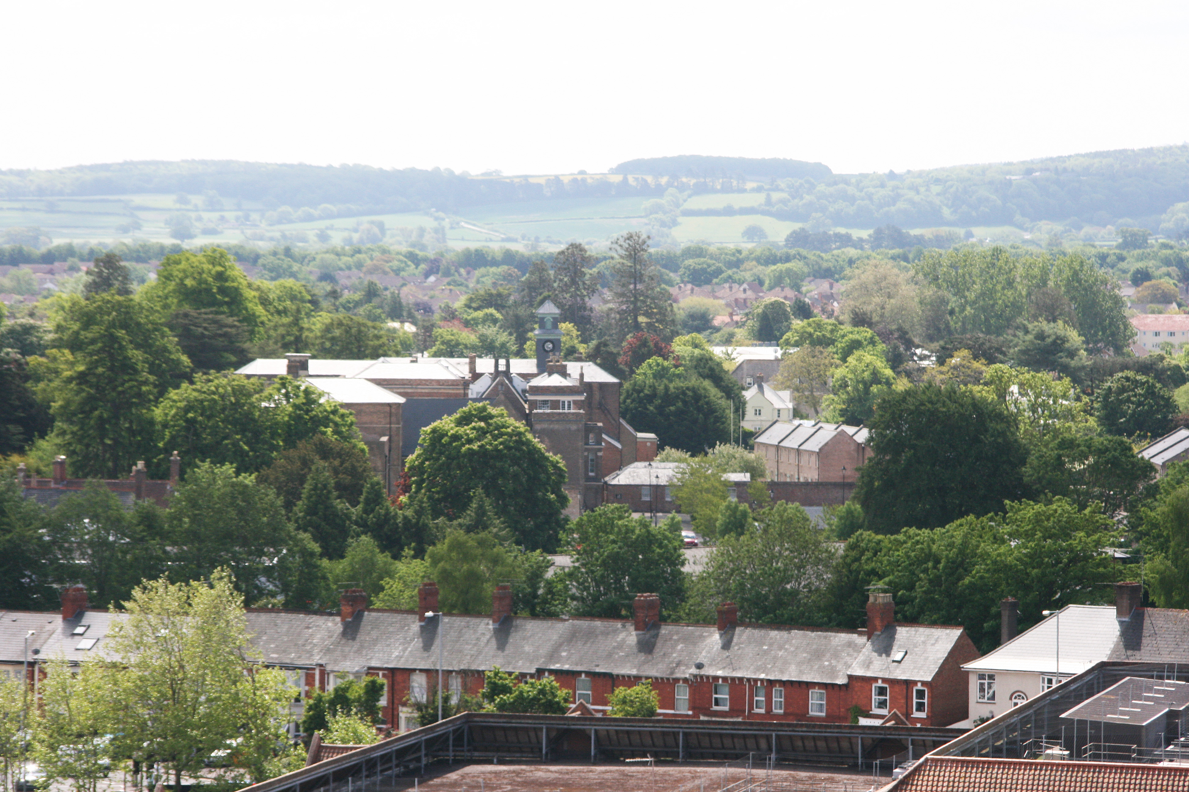 Former convent of St. Joseph